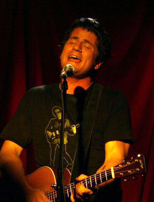 Matt Nathanson at the El Mocambo in Toronto on October 8, 2007